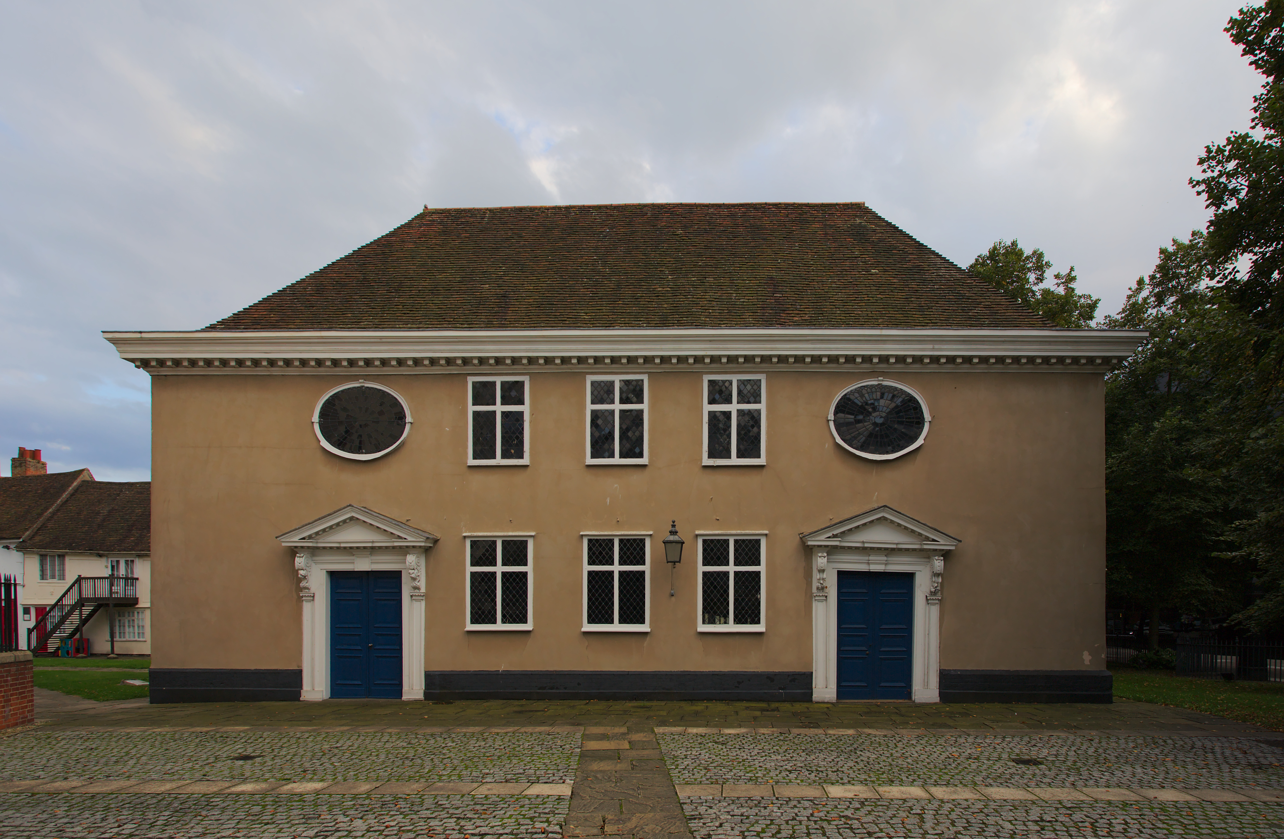 The Unitarian Meeting House, Ipswich, Suffolk from the North